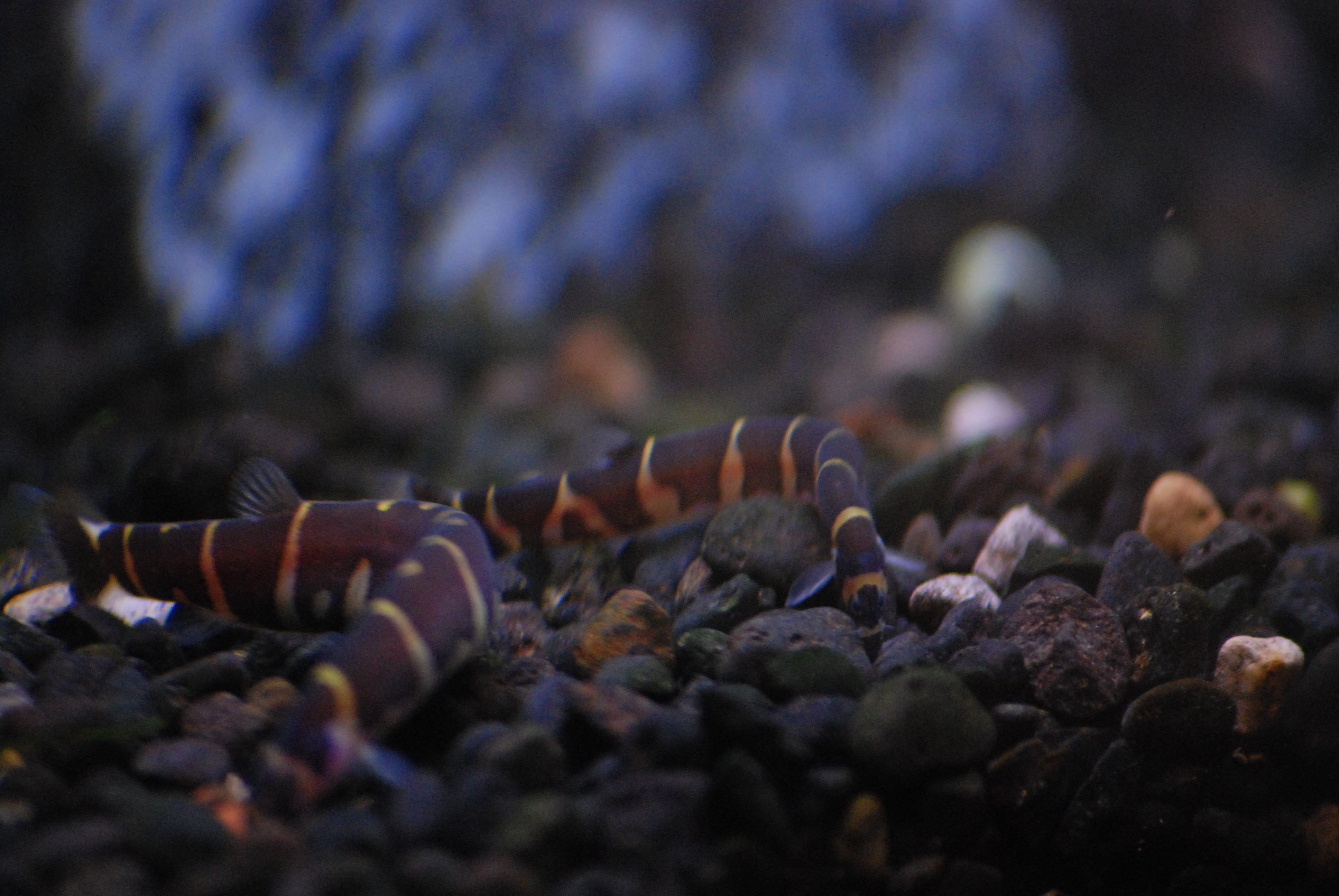 Photographer: Linton Tuleja. Source: My computer. Descriptive title: Kuhli Loaches.